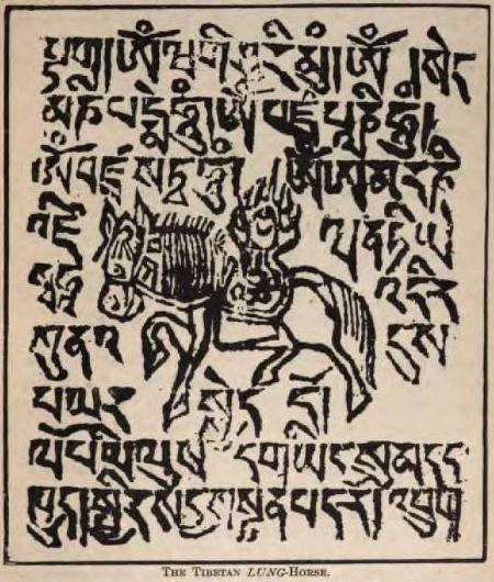 Image in the book states, "The Tibetan LUNG-Horse" (It is correctly called a "wind horse" in English or "lungta" in Tibetan)